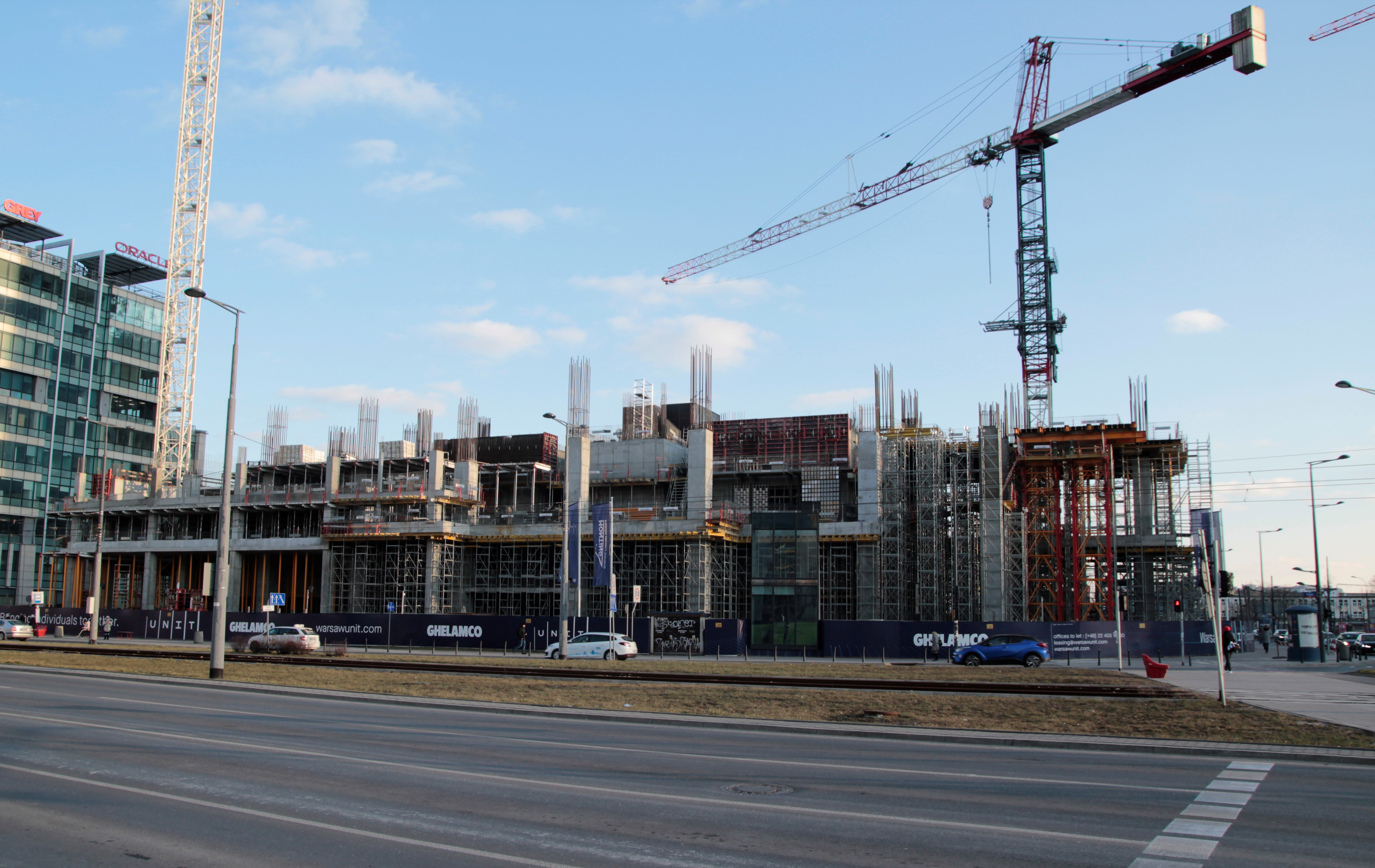 Warsaw Unit under construction, from north